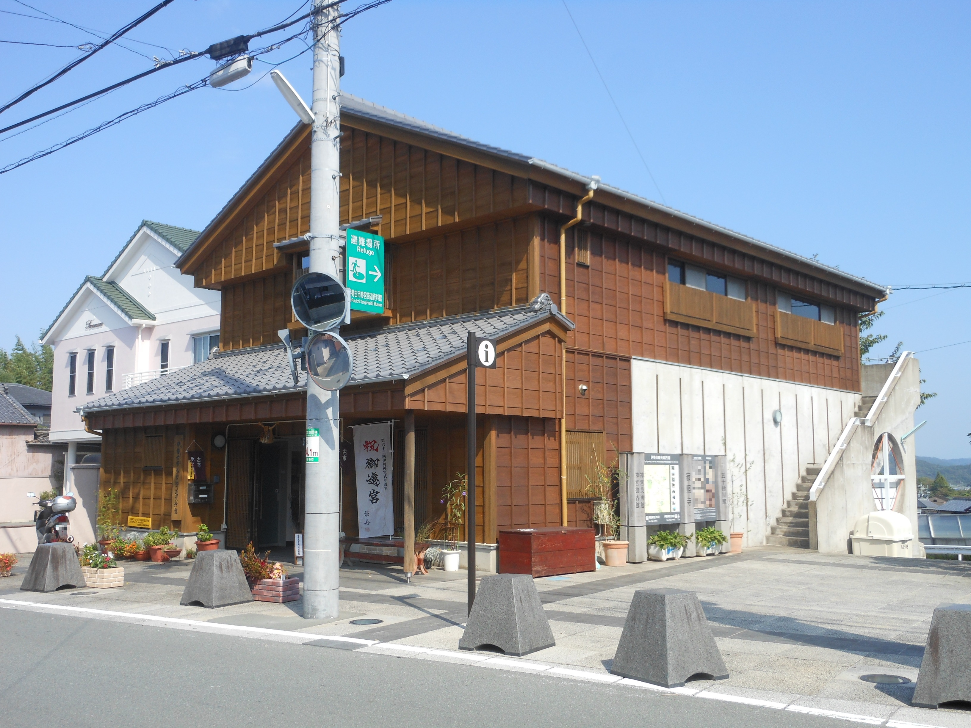 This is the Ise Furuichi Sangū-kaidō Museum, which is located in Ise, Mie, Japan.